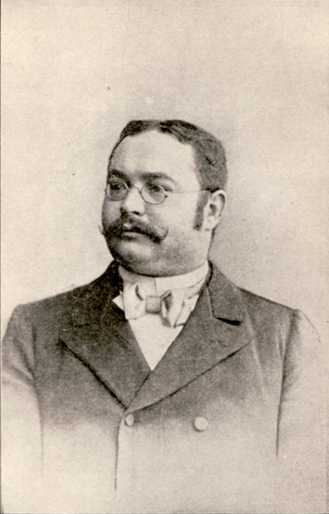 Portrait of German writer Gustav Adolf Müller